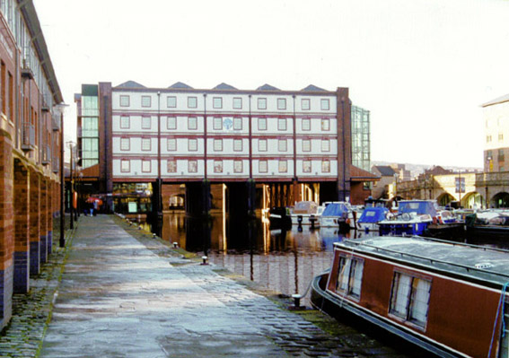 Victoria Quays in Sheffield, England. © Jeremy Atherton, 2001.